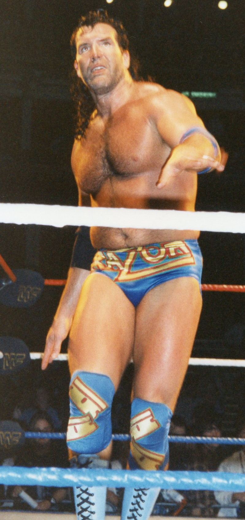 Razor Ramon taunts his opponent before a match at Royal Albert Hall in London. Taken October 4, 1995.